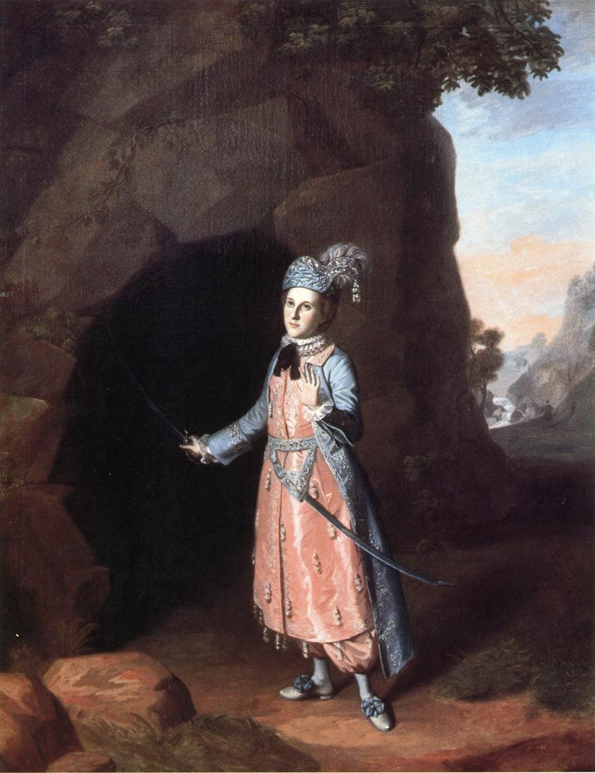 "Nancy Hallam as Fidele in Shakespeare's Cymbeline." Courtesy of the Colonial Williamsburg Foundation. Image courtesy of The Athenaeum.